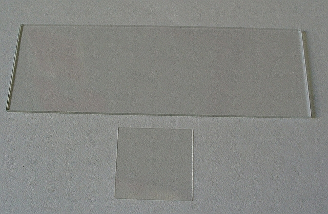 Microscope glass. (salcillo drostick)